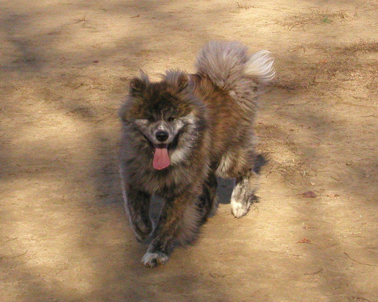 Moku (long fur mutation) unclipped Akita Inu playing on muddy ground.